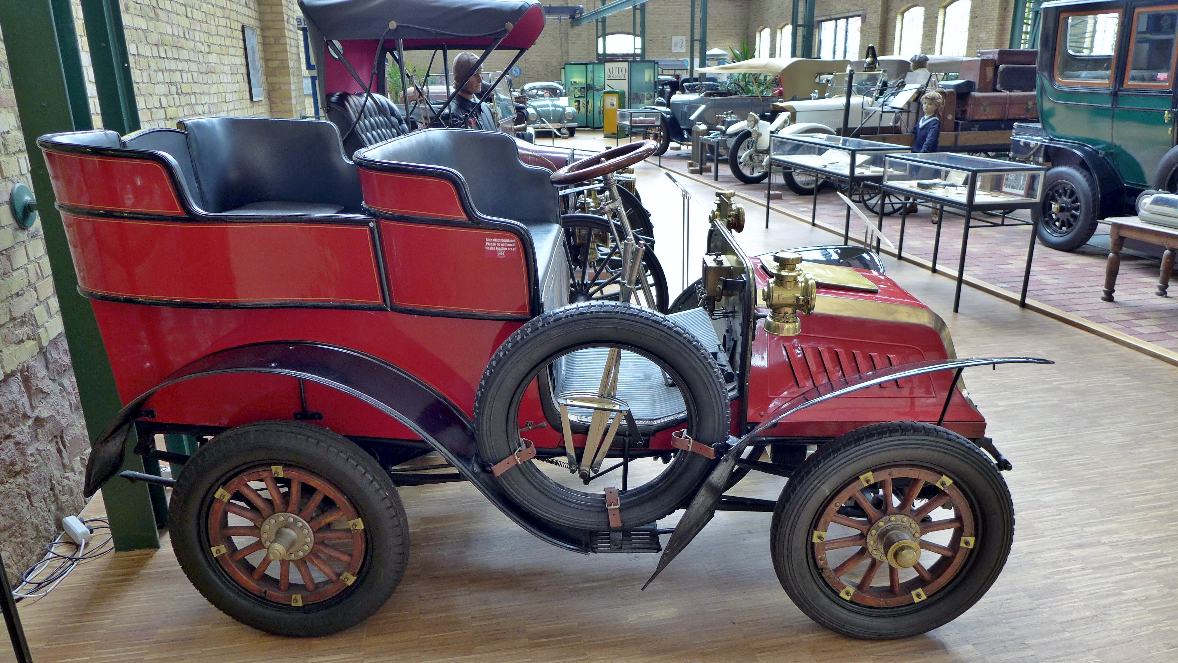 A 1900 Lux Tonneau, on display at the Automuseum Dr. Carl Benz, Ladenburg, Baden-Württemberg, Germany.